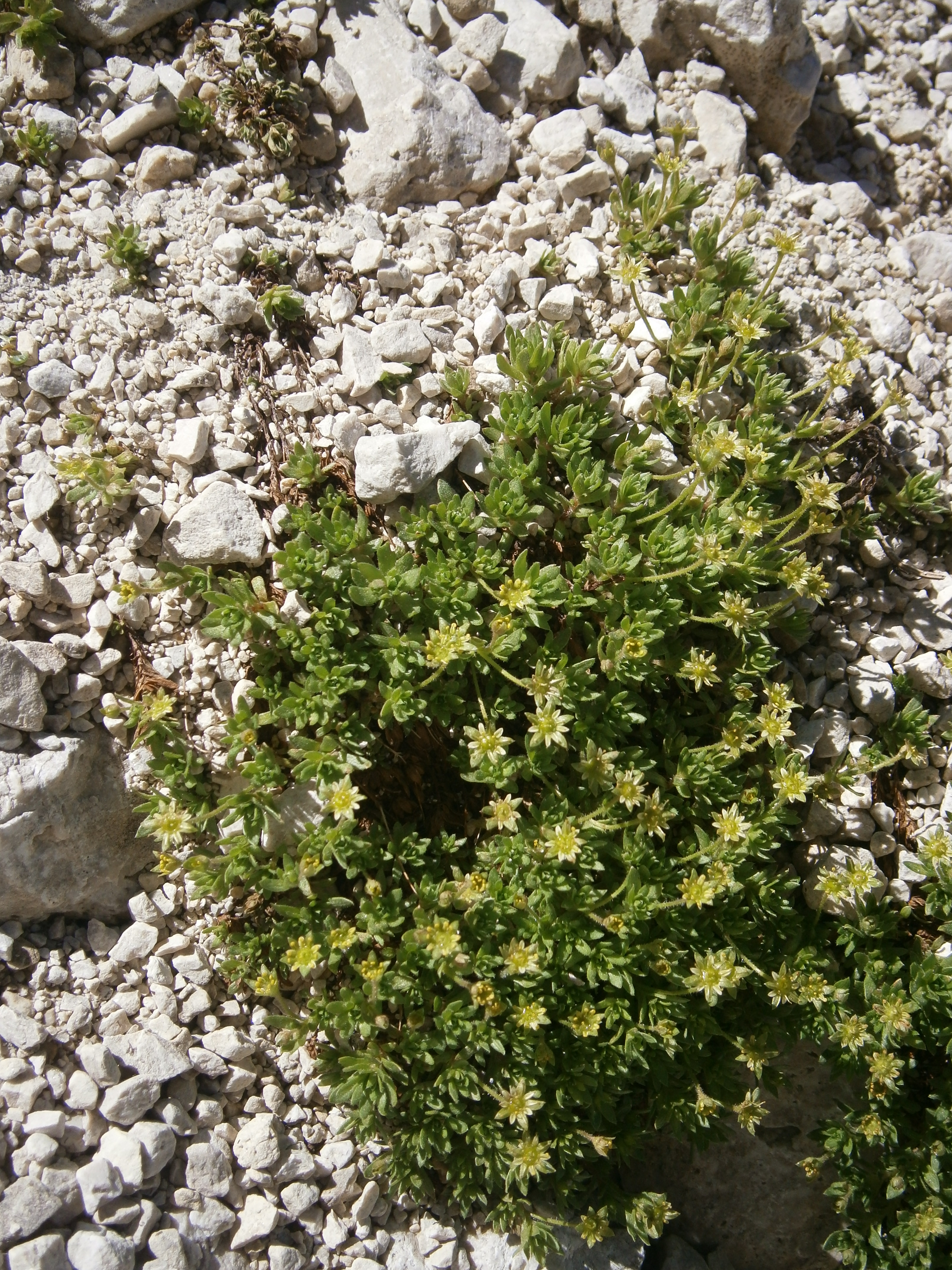 Saxifraga sedoides